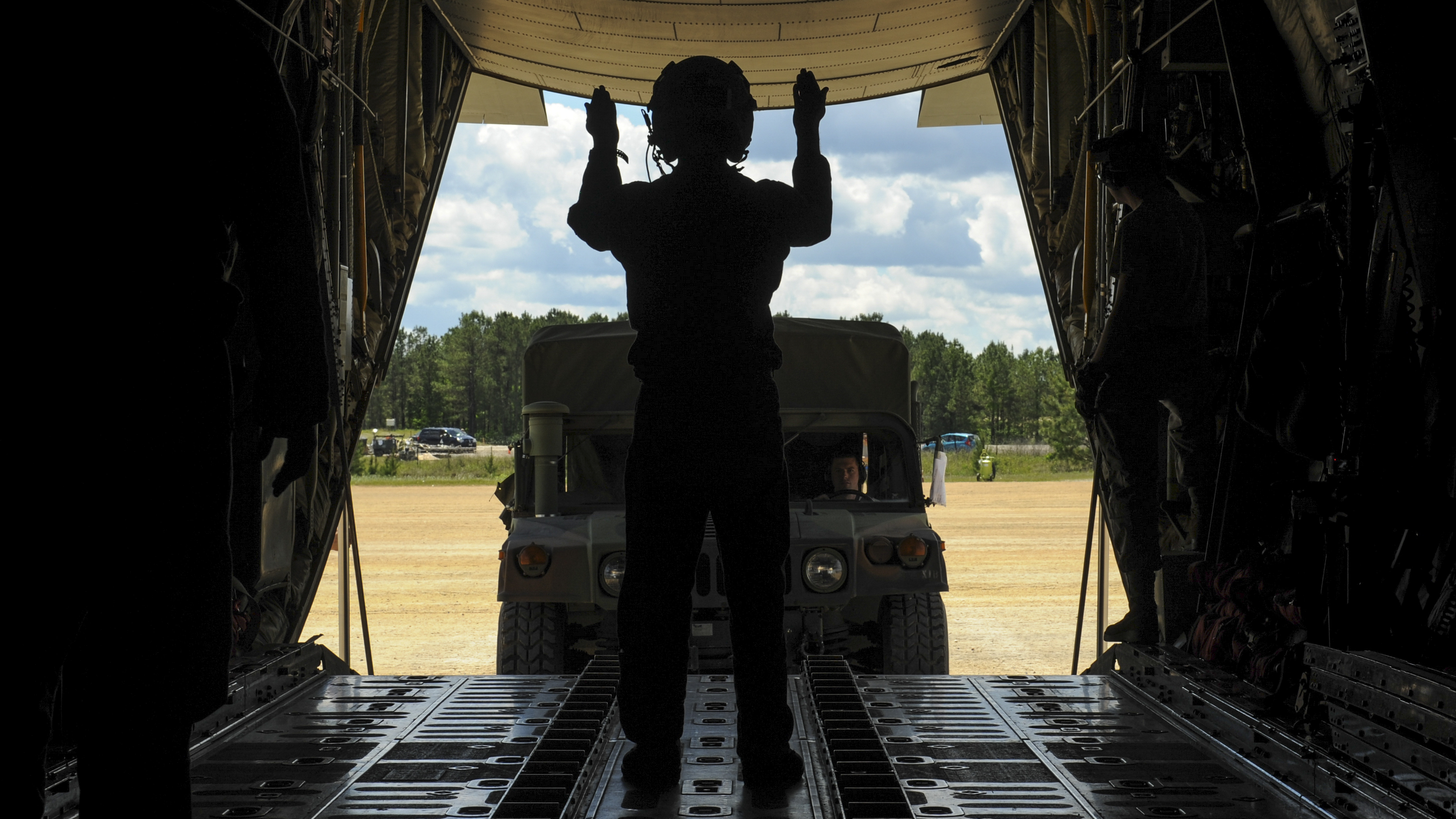 Royal Australian Air Force Sgt. Paul Cox, No. 37 Squadron C-130J loadmaster, directs a U.S. Air Force Humvee onto a C-130J April 22, 2016, at an improvised landing zone on Fort Polk, La. Australian forces worked alongside coalition forces from the U.S., Sweden, New Zealand and Australia during the Green Flag Little Rock 16-06 exercise. (U.S. Air Force photo/ Senior Airman Harry Brexel)